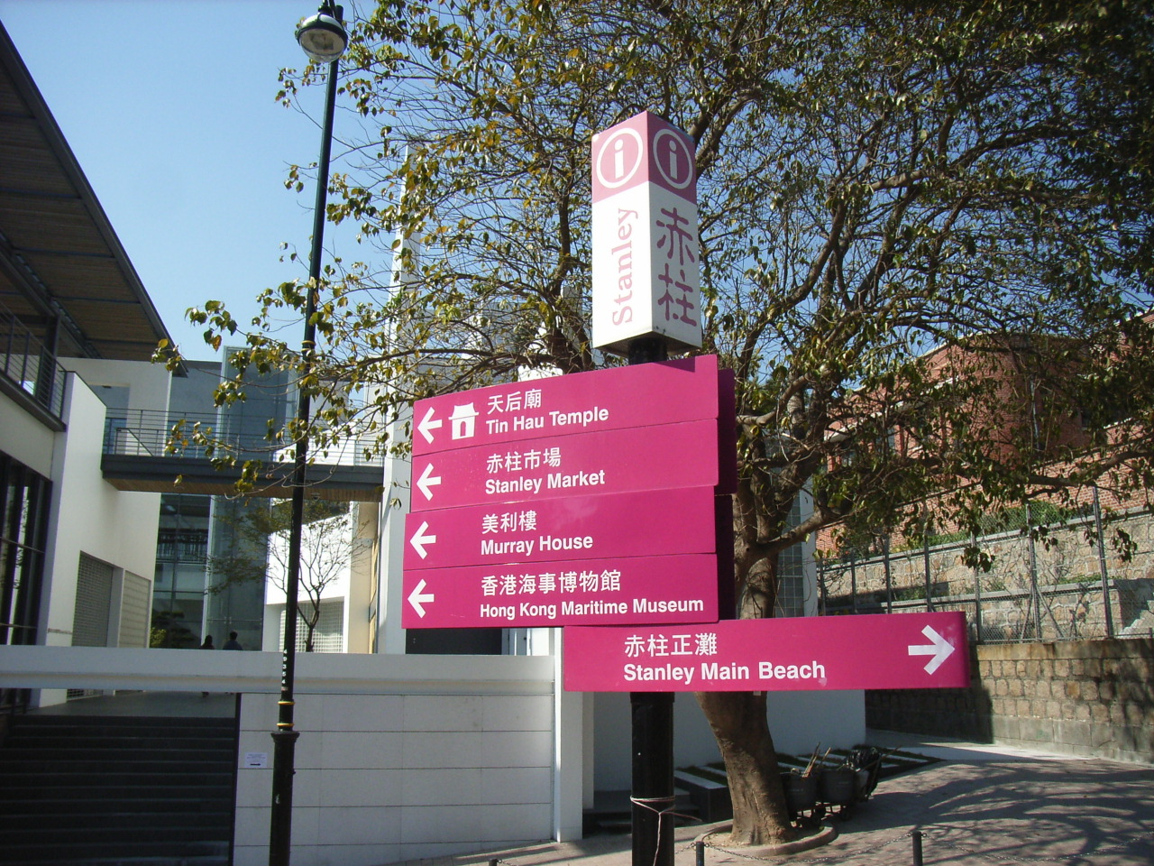 赤柱市政大廈, No.6 Stanley Market Road, Hong Kong. User:Twins Stanley 625